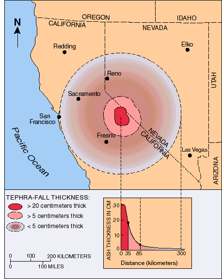 Hazard map of ashfall from a future eruption along the Mono-Inyo Crater volcanic chain